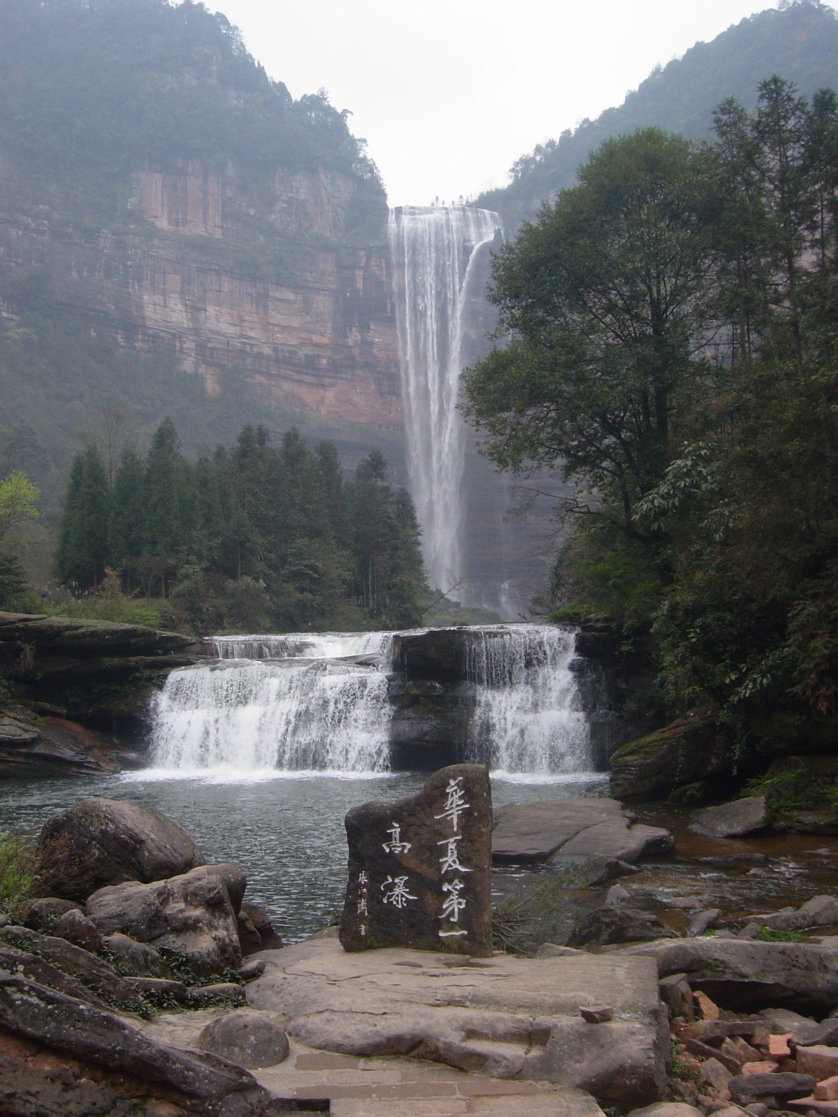 The Nostalgia Balcony Waterfall in Simian Mountain, Jiangjin, Chonging. This photo has been taken by Mr.Chen Hualin.